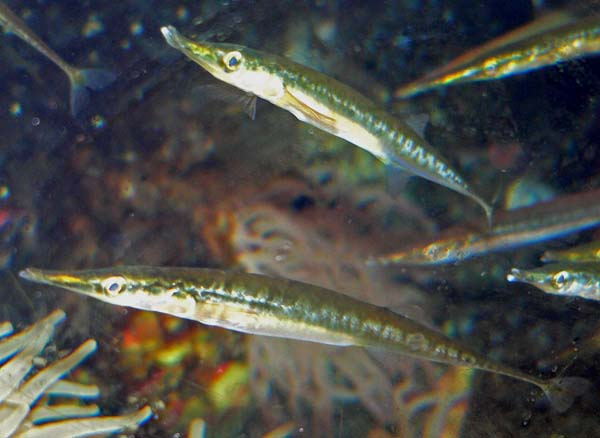 Photo of Aulorhynchus flavidus (tubesnout) at the Vancouver Aquarium